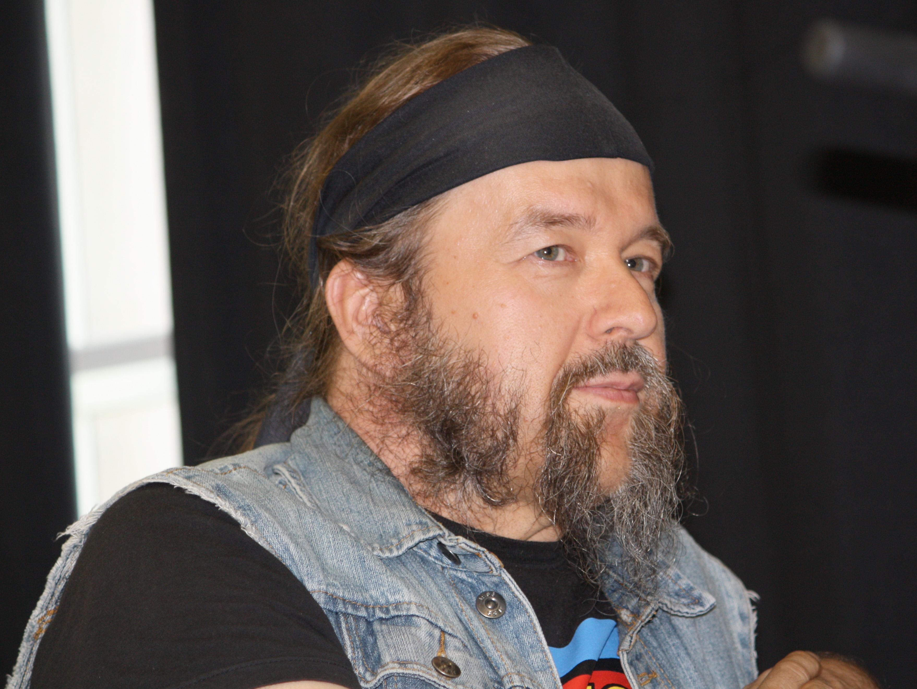 Finnish comics artist Pekka Manninen at Finncon 2013 in Helsinki, Finland